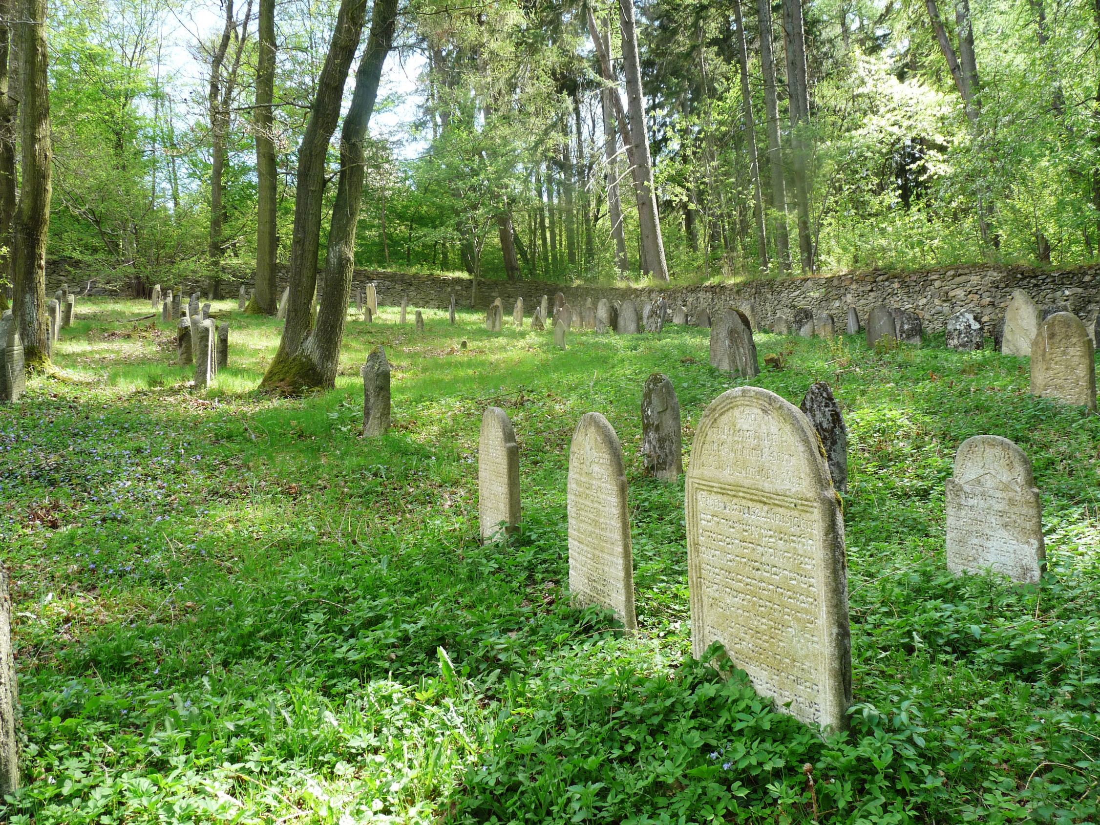 Jewish cemetery in Strážov, Klatovy District, Czech Republic